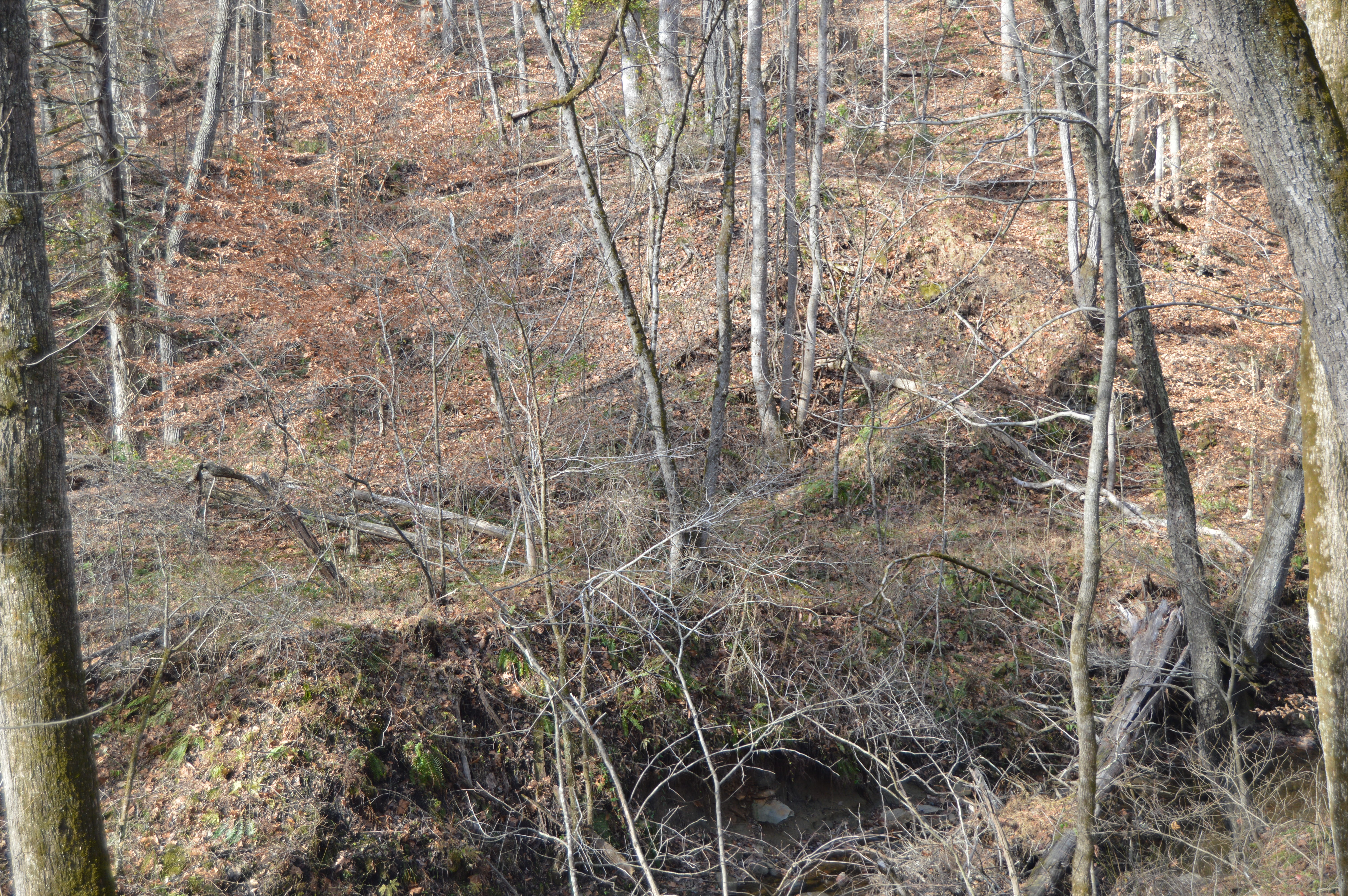 Overview of the site of Tubal Furnace, located along Spotswood Furnace Road west of Fredericksburg in Spotsylvania County, Virginia, United States. The remains of the furnace (hidden by brush in this image) and surrounding terrain are an archaeological site and listed on the National Register of Historic Places.